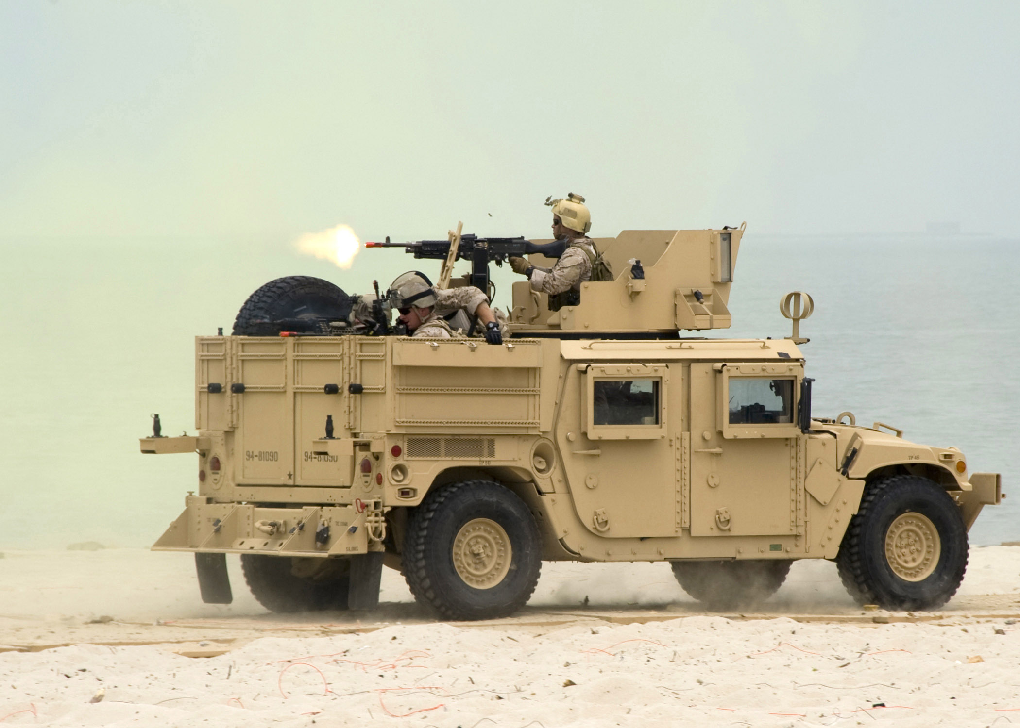 VIRGINIA BEACH, Va. (July 17, 2010) U.S. Navy SEALs lay down covering fire as part of an extraction exercise during a capabilities demonstration at Joint Expeditionary Base Little Creek, Va. The Naval Special Warfare community event was part of the 41st UDT/SEAL East Coast Reunion celebration. (U.S. Navy photo by Chief Mass Communication Specialist Stan Travioli/Released)